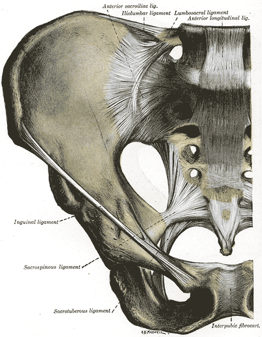 Anterior articulations of pelvis (Quain)